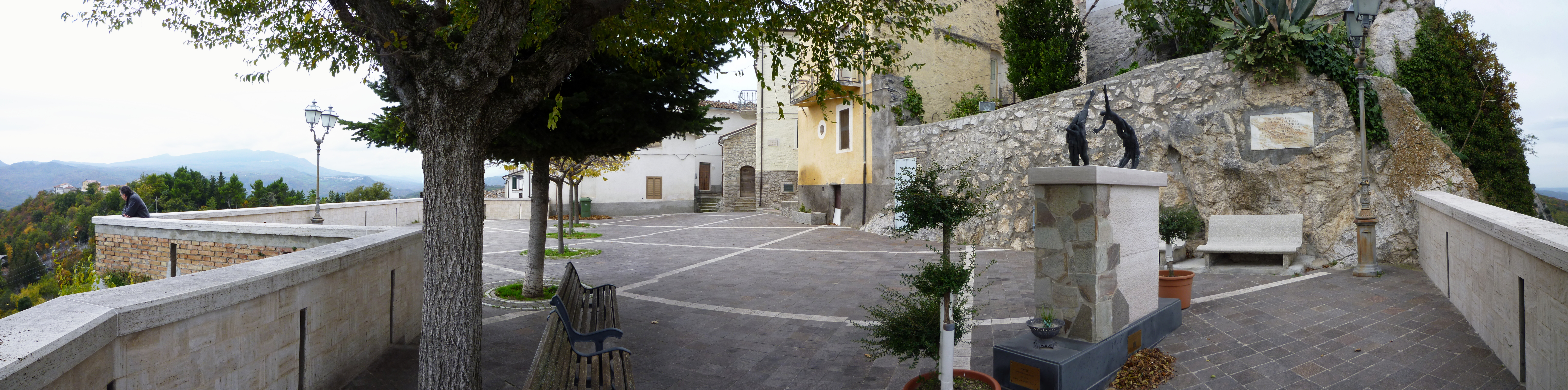 Piazza Palazzo in Montelapiano, in the province of Chieti, Abruzzo